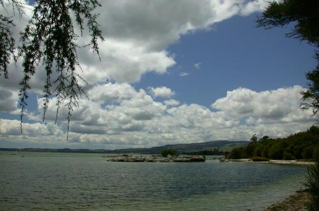 Lake Rotorua, second largest lake of the New Zealand North Island, near Rotorua, Rotorua District, Bay of Plenty